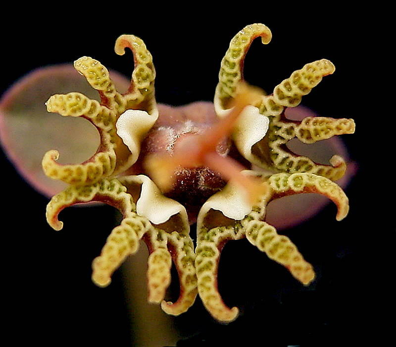 Euphorbia ornithopus